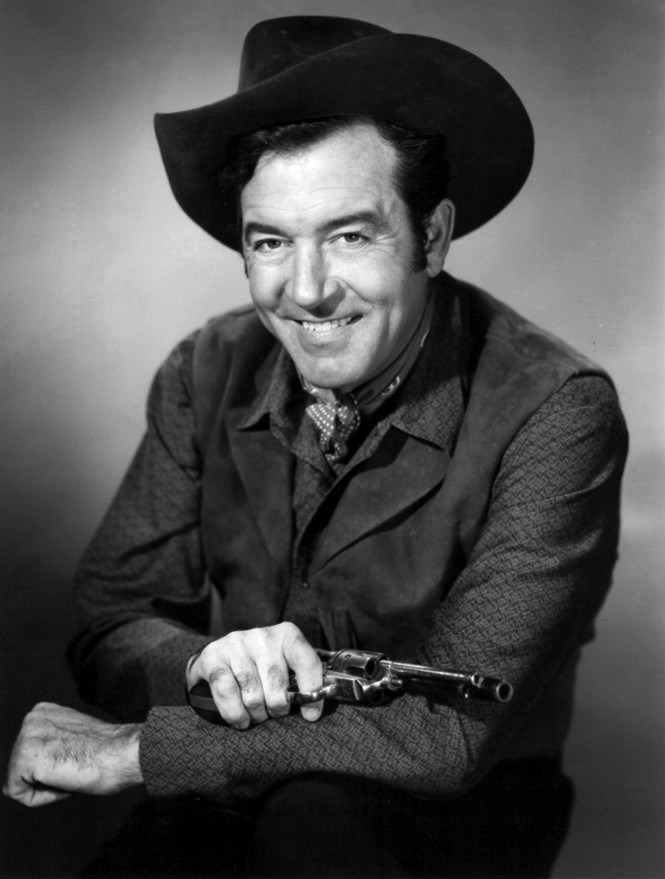 Publicity photo of John Payne from the television program The Restless Gun.